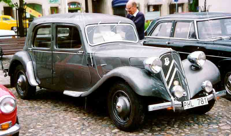 Citroen 11B Berline Legere 1946.